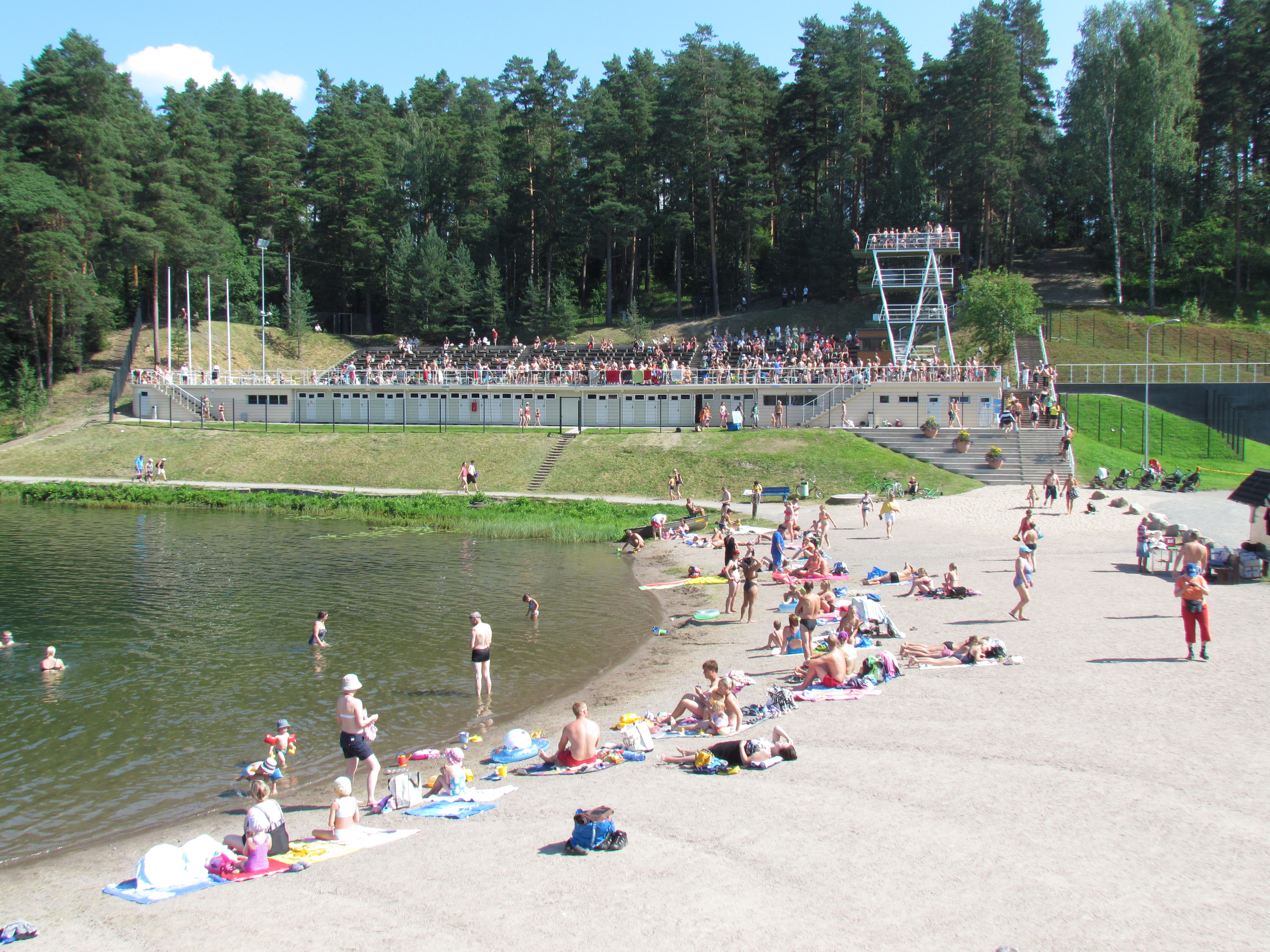 Ahveniston lido in Hämeenlinna was re-opened after renovation the 26th of July in 2014. The lido was built next to the Ahvenisto lake for 1952 Summer Olympics.